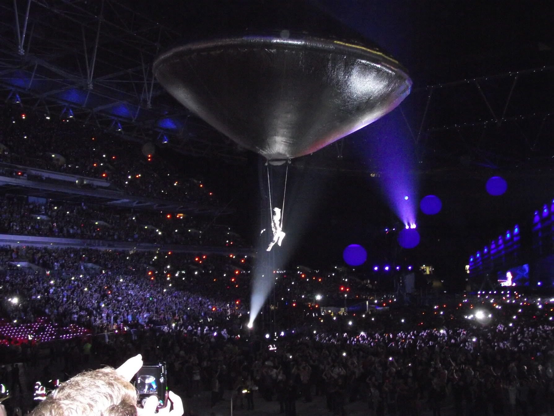 An UFO at Wembley stadium with an acrobat underneath it.